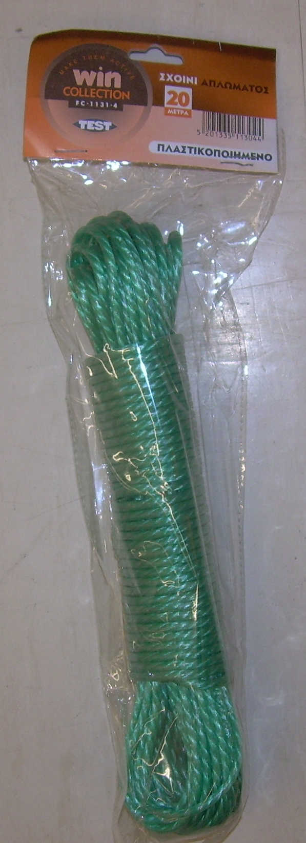 Clothes line, an energy device (check here, Florida State Statute "...solar collectors, clotheslines, or other energy devices..."